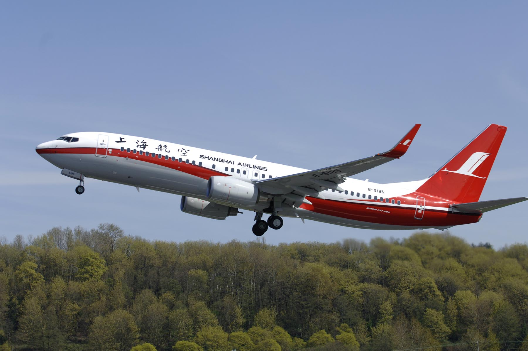 Shanghai Airlines SH B737-800